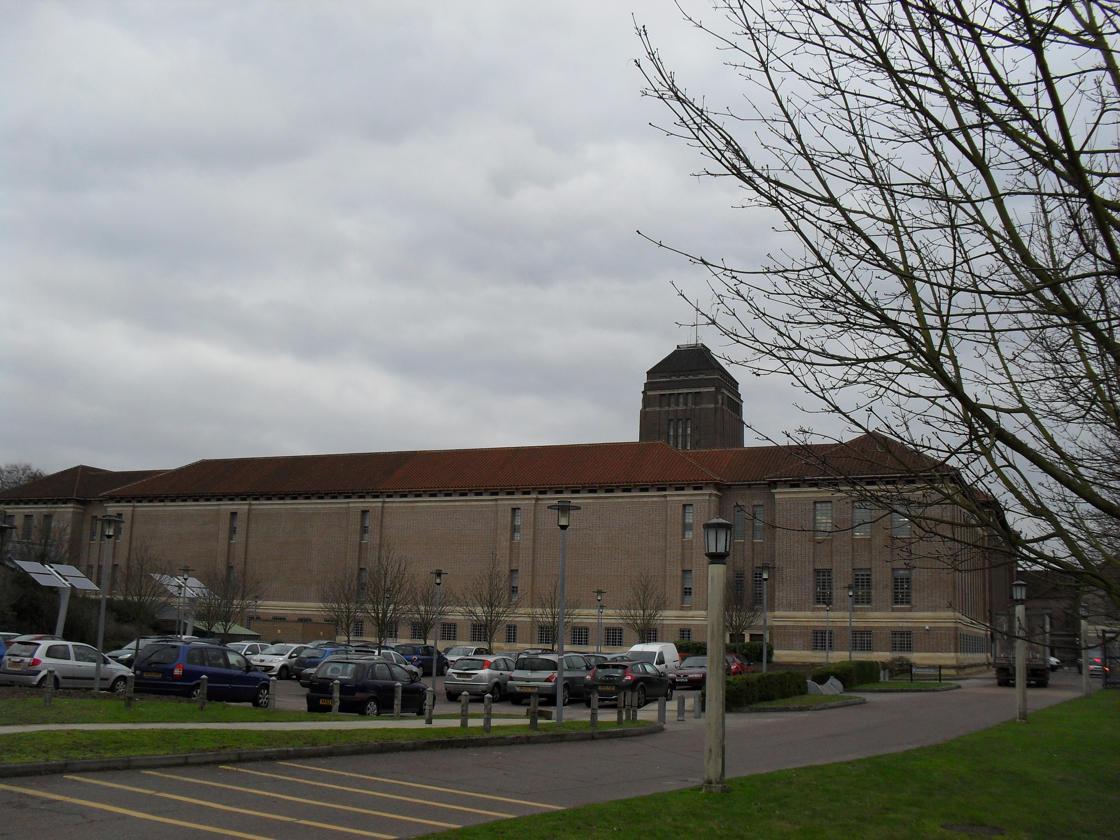 Cambridge University Library